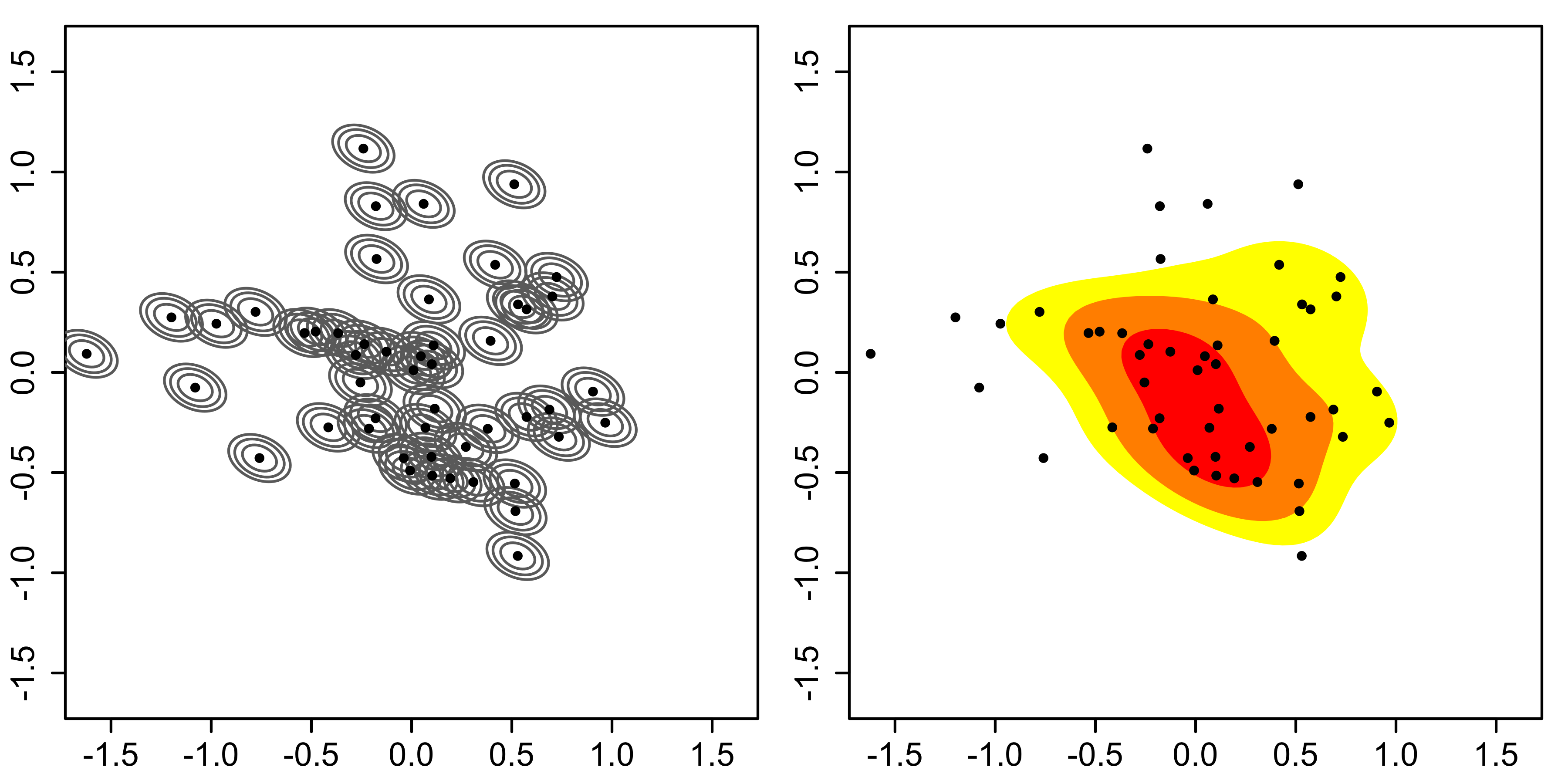 Illustration of the construction of 2D kernel density estimates. (Left) data points with individual kernels as grey dashed lines, (right) summed kernels = kernel density estimate.